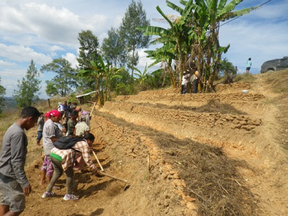 Micro program for sustainable upland farming Farmers group of Aldeia Locotoi, Suco Fahisoi (Liquidoe), are making bench terrace at their demo plot.